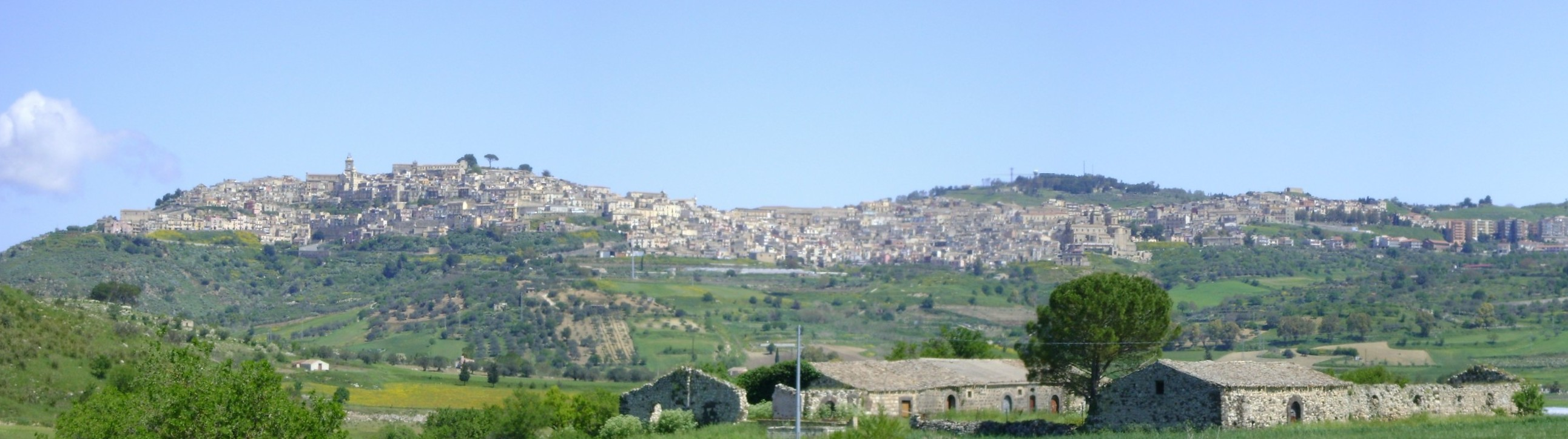 View of Vizzini, province of Catania